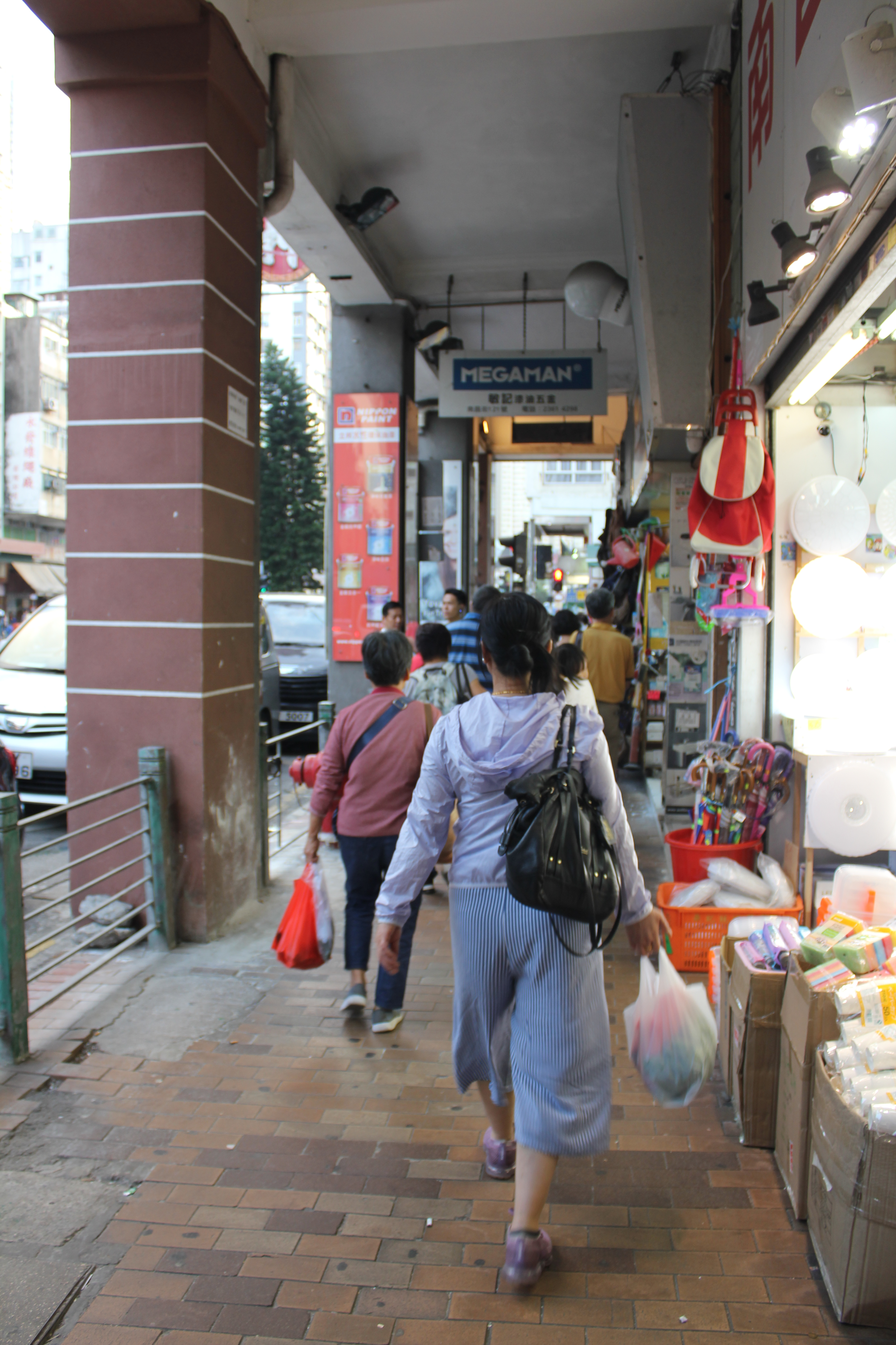 117-125 Nam Cheong Street is a series of 5 pre-war Tong Lau (Chinese Tenement). They are located at the intersection of Nam Cheong Street and Yu Chau Street. All of them are originally graded as Level 2 Historic Buildings, but later downgraded to level 3. This photo shows the corridor formed under the balconies of the buildings.